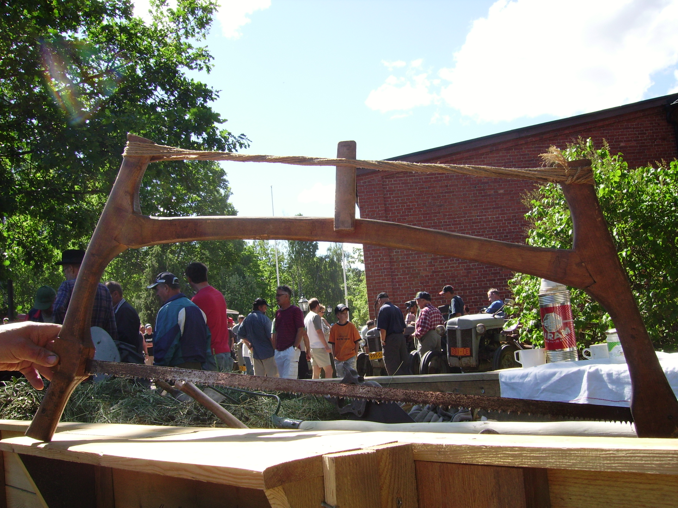 Traditional Finnish frame saw with wooden frame, loggers' tool before cross-cut and chain saws till 1960s. The logger could build and repair his own frame and the frame could be disassembled and carried easily.